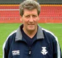 lambie